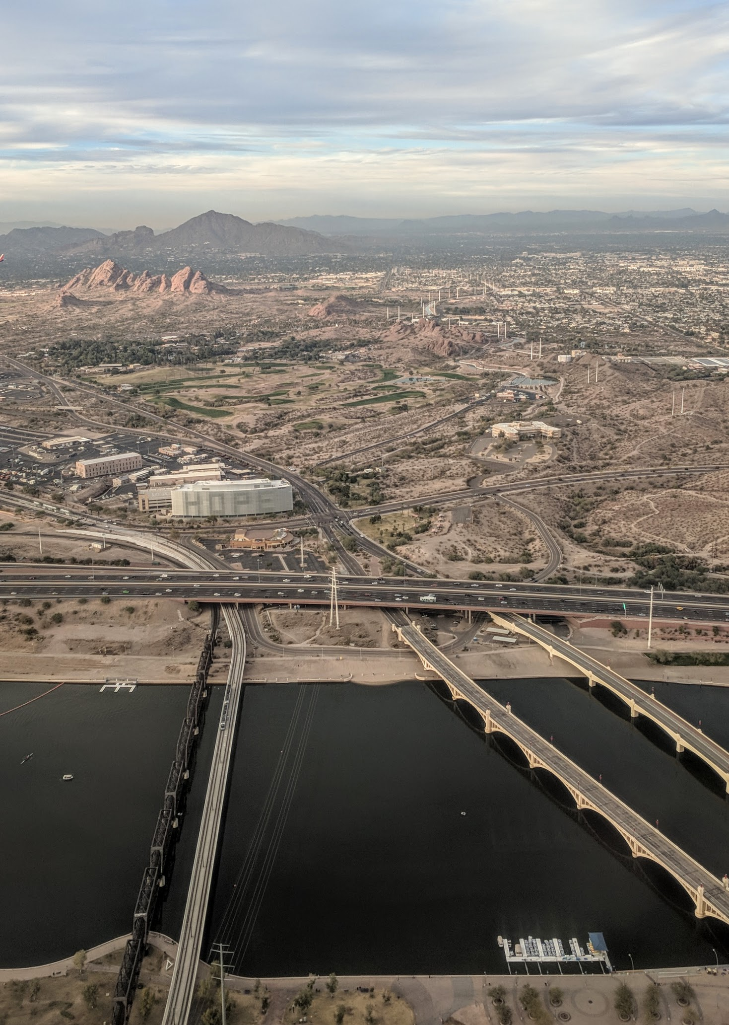 Bridges across the Tempe Town Lake on the Salt River in Tempe, Arizona. Tempe Beach Park in the foreground, and the building with HOPE on it at 350 W Washington St across the river.